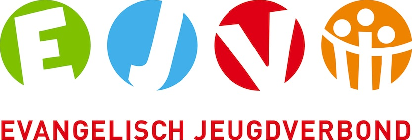 Logo van het Evangelisch Jeugdverbond